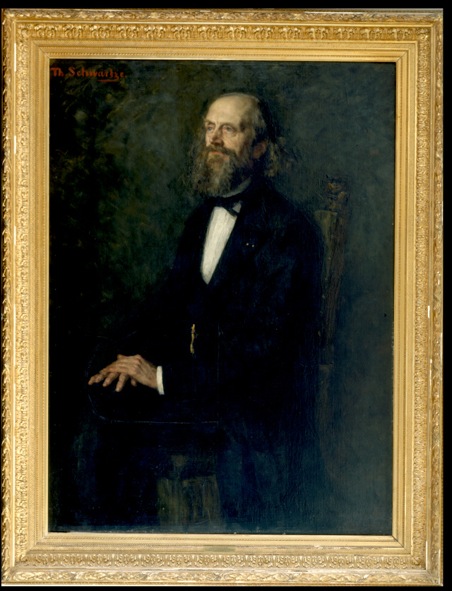 Sytze Hoekstra Bzn (1822-1898)